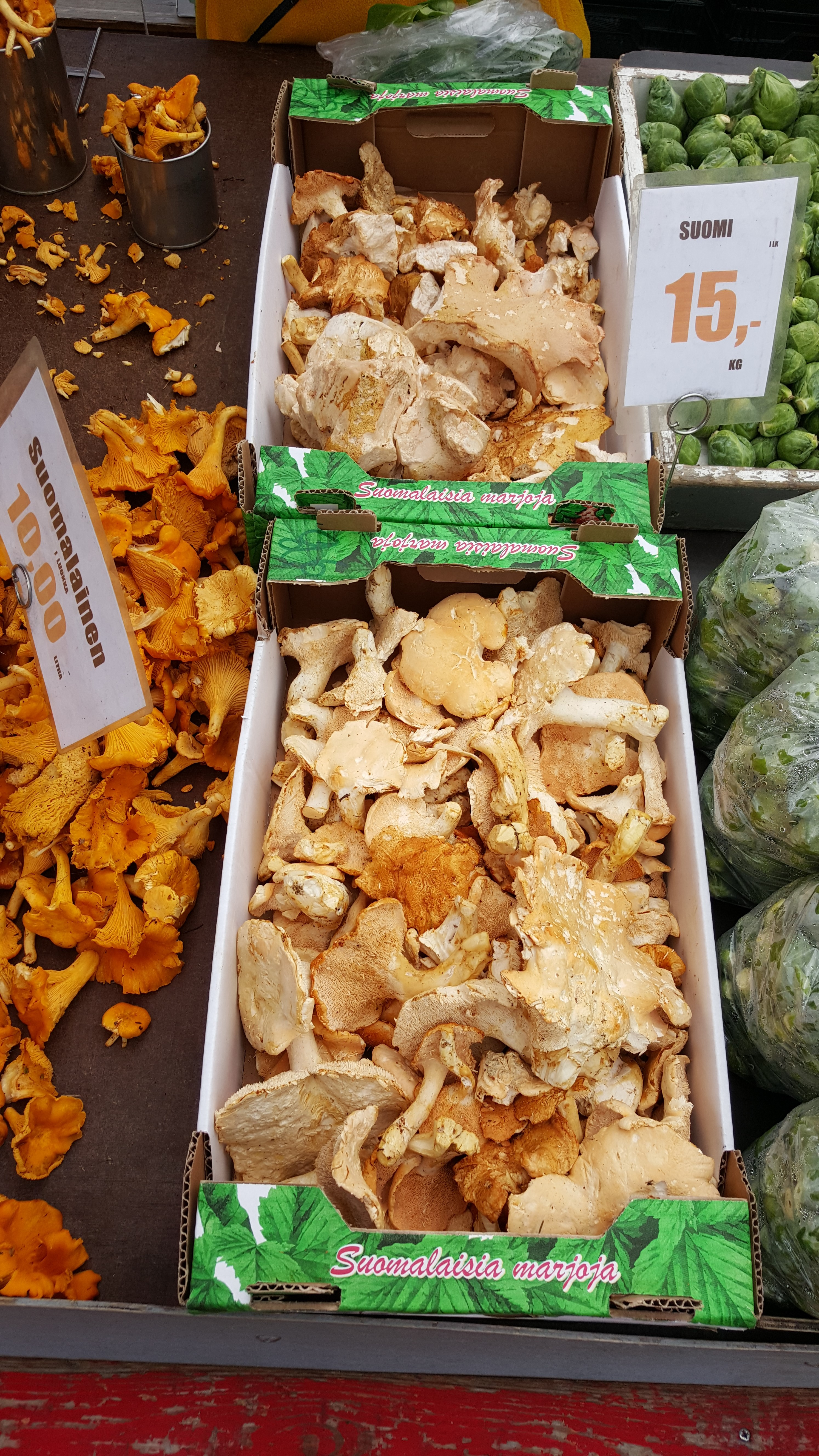 Hydum repandum on sale in market in Finland